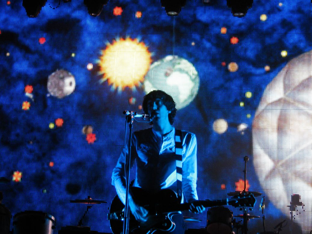 Snow Patrol - "The Lightning Strike" at Jahrhunderthalle, Frankfurt - May 22, 2009